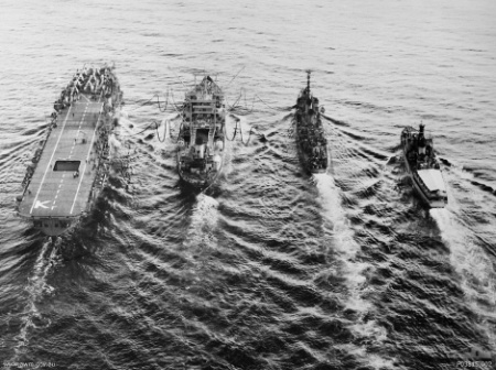 Four Allied ships operating off Korea. From left to right they are HMAS Sydney (R17), RFA Wave Premier (A129); USS Nicholas (DD-449) and HMS Alert (K647). HMAS Sydney and USS Nicholas are being refueled by Wave Premier.